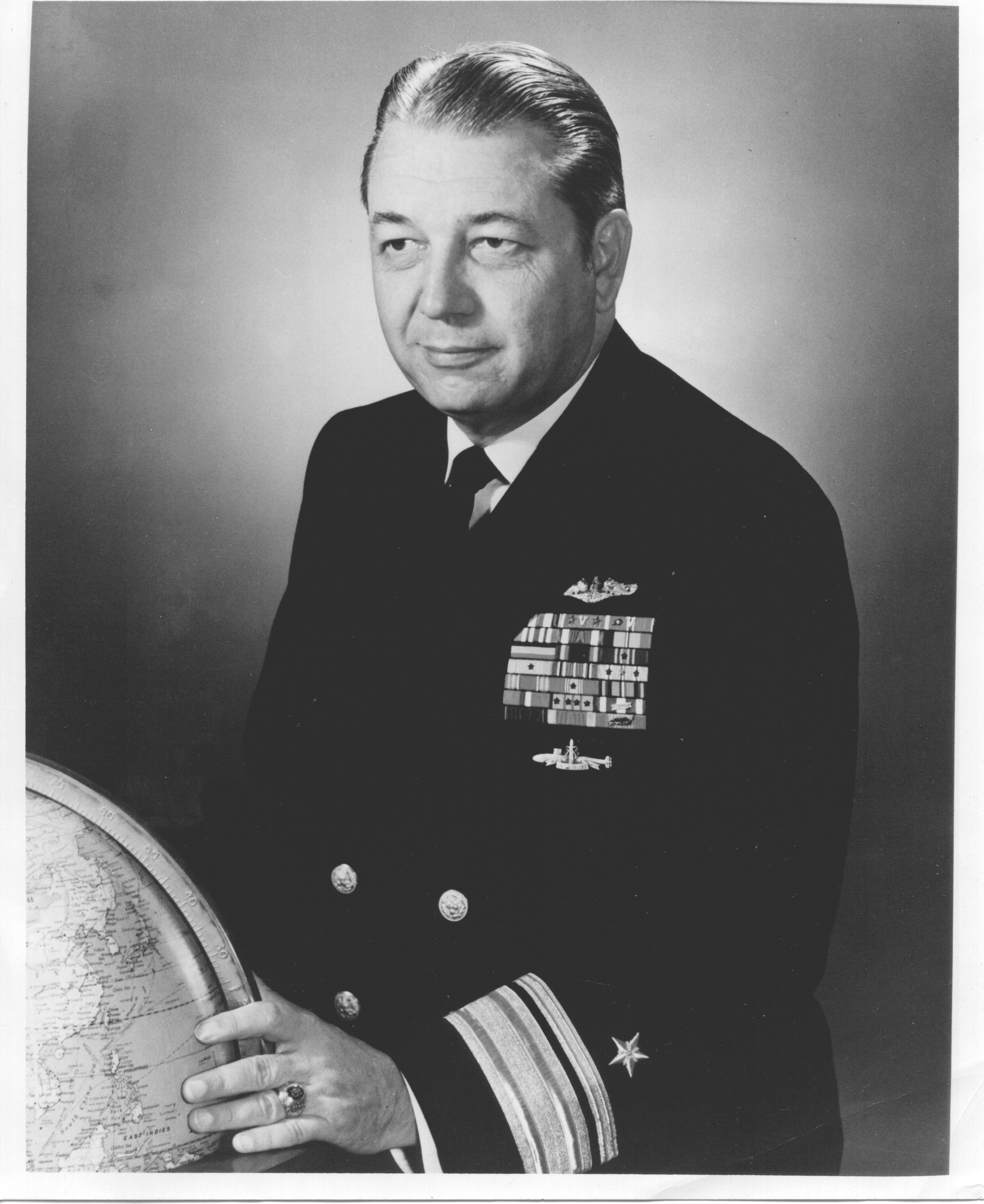 W. W. Behrens, Jr.